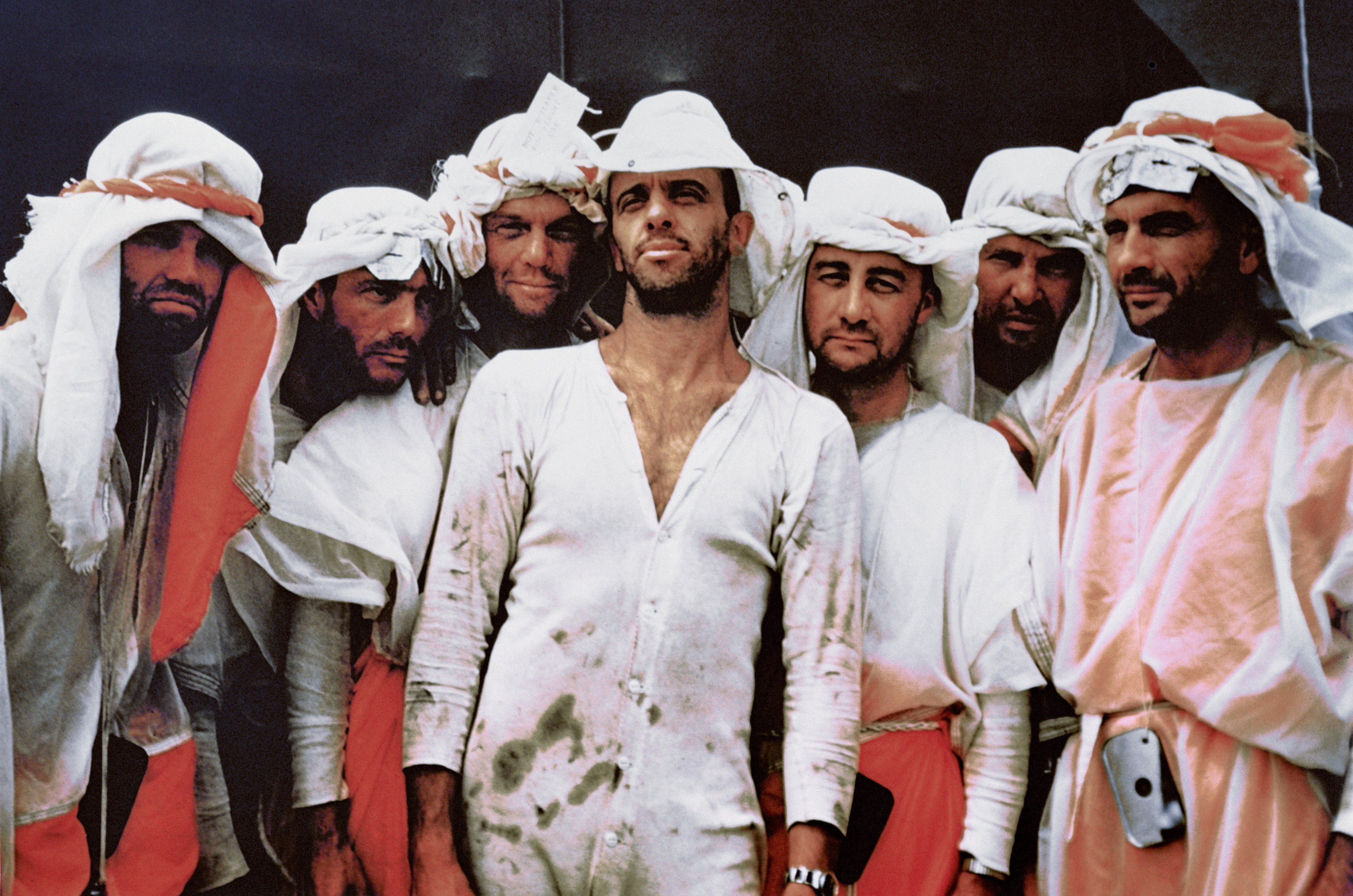 The seven original Mercury astronauts participate in U.S. Air Force survival school at Stead Air Force Base in Nevada. Picture from left to right are L. Gordon Cooper, M. Scott Carpenter, John H. Glenn, Jr., Alan Shepard, Virgil I. Grissom, Walter M. Schirra, Jr., and Donald K. Slayton. Portions of their clothing have been fashioned from parachute material, and all have grown beards from their time in the wilderness. The purpose of this training was to prepare astronauts in the event of an emergency or faulty landing in a remote area.